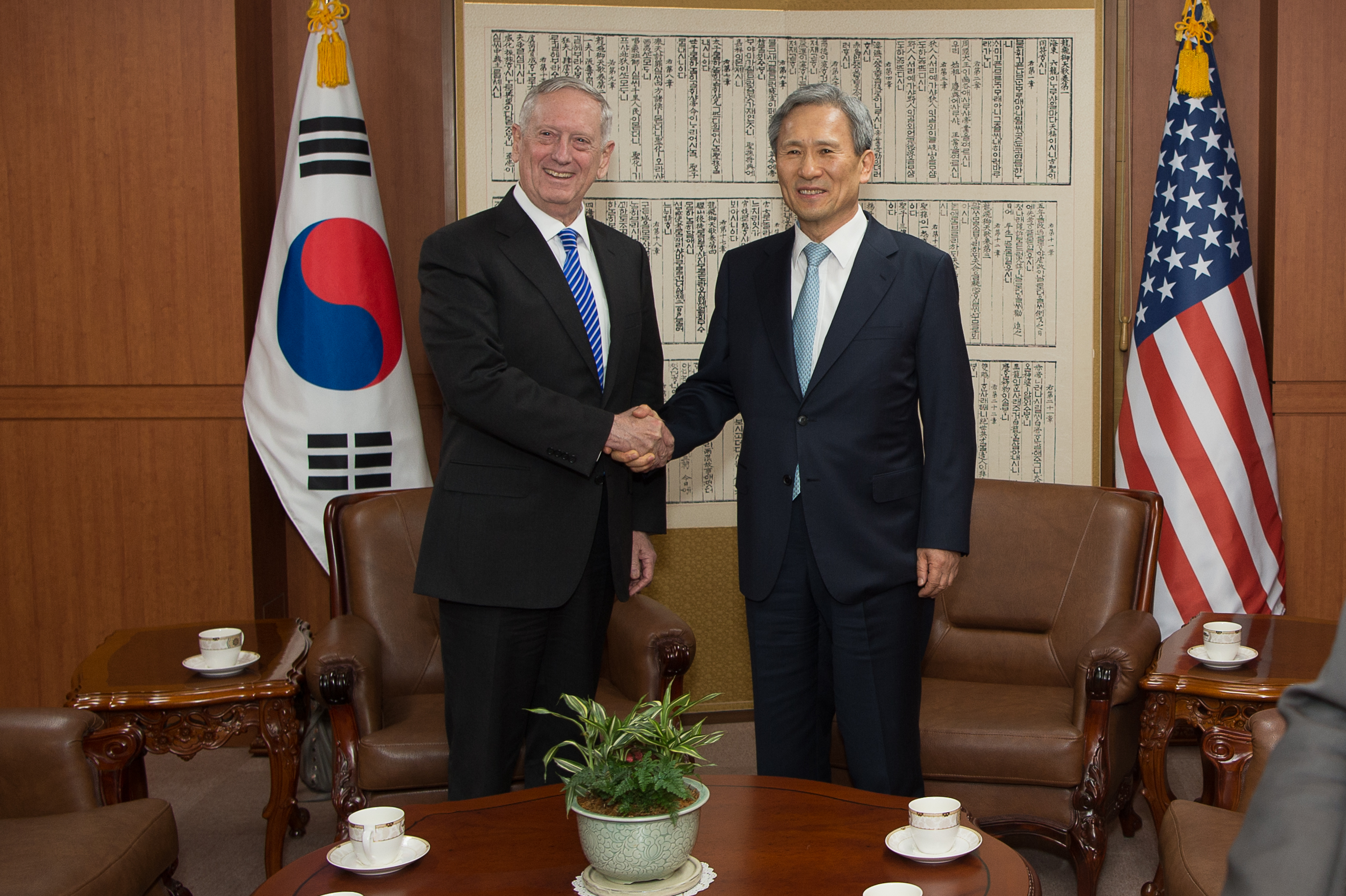 Defense Secretary Jim Mattis meets with Republic of Korea National Security Advisor Kim Kwan-jin during a visit to Seoul, South Korea, Feb. 02, 2017. (DOD photo by Army Sgt. Amber I. Smith)